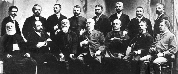 Romanian politicians that signed the Transylvanian Memorandum of 1892.